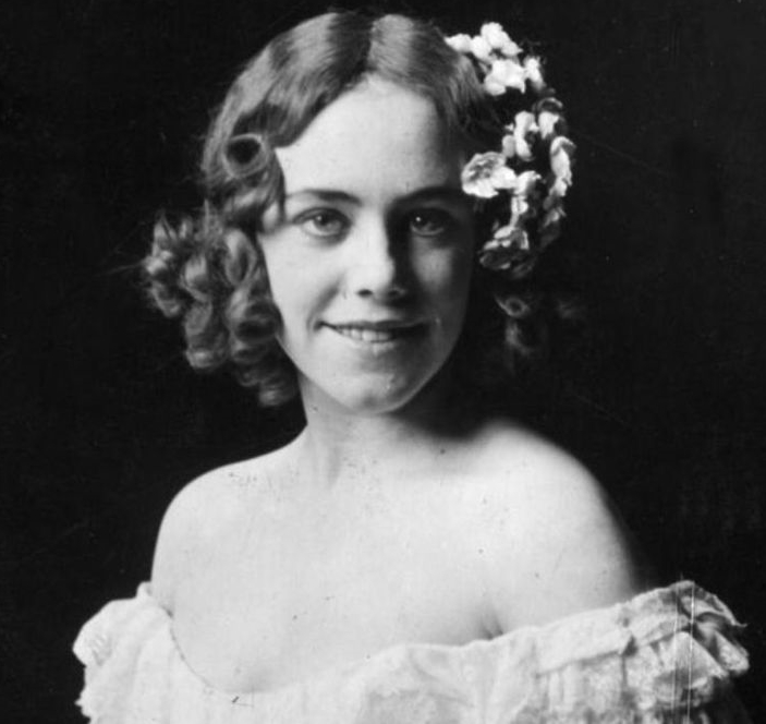 Photograph of the Danish ballerina Elna Lassen - cropped version